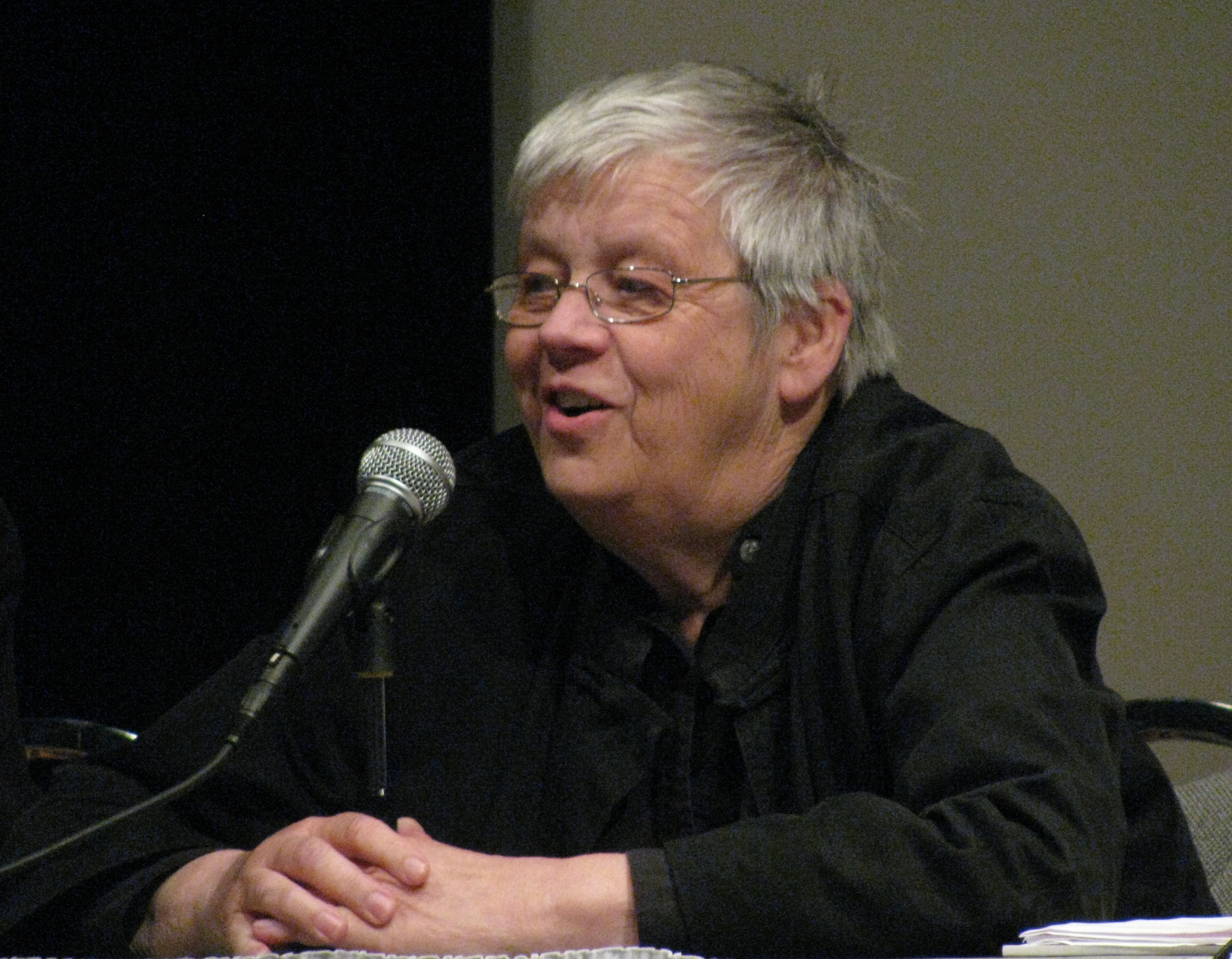 Steina Vasulka, at the Celebration of the 35th Anniversary of the Founding of Media Study (University at Buffalo)